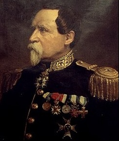 Painting of Ernst von Vegesack as military commander of Gotland National Conscription.